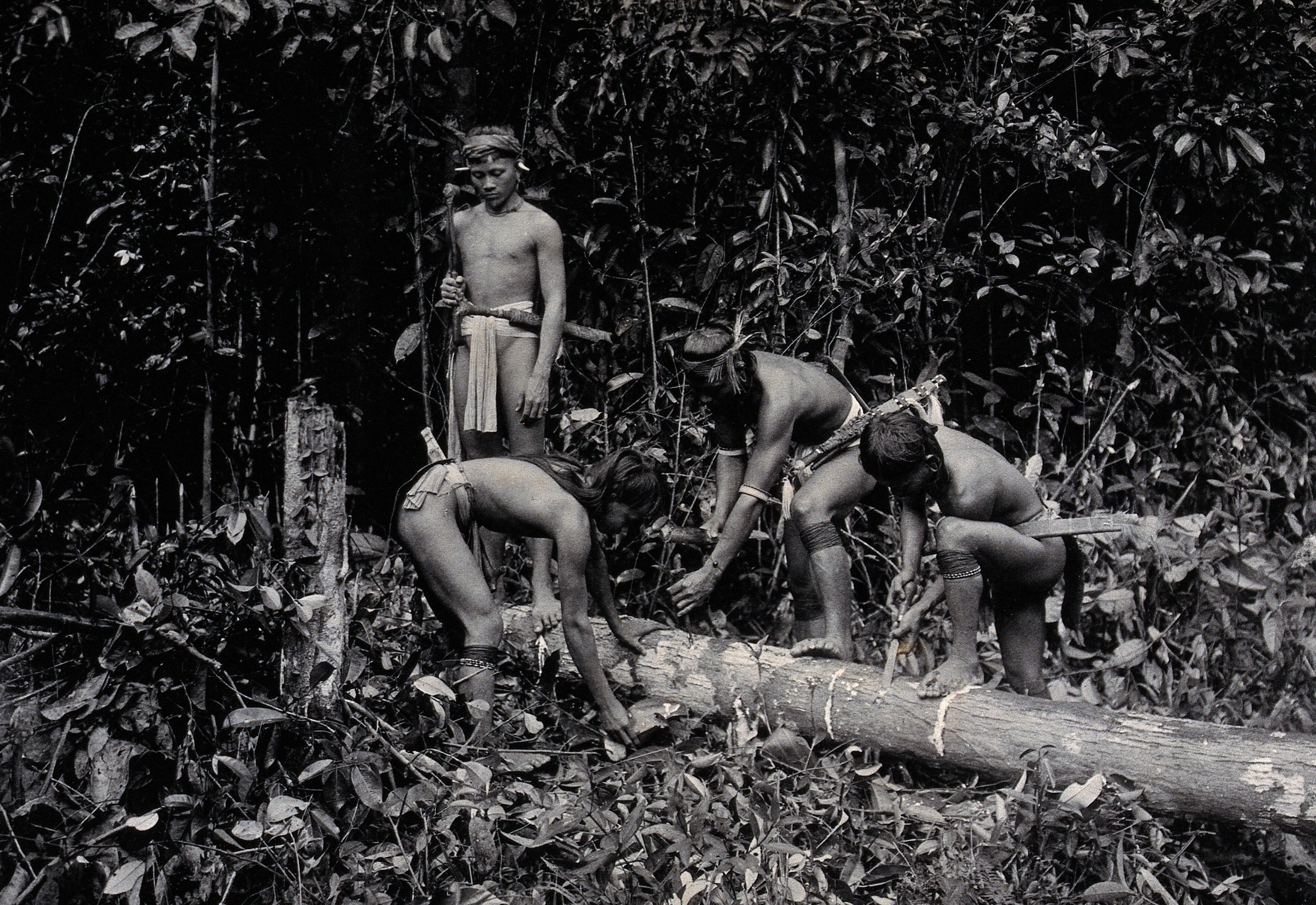 Sarawak: four Kayan natives collecting gutta percha from a tree trunk. Photograph. Iconographic Collections Keywords: Tribe; Population Groups; Borneo; Tribal; Charles Hose; Anthropology; Malaysia; Ethnography